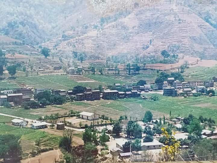 Gajuri in 1889 AD